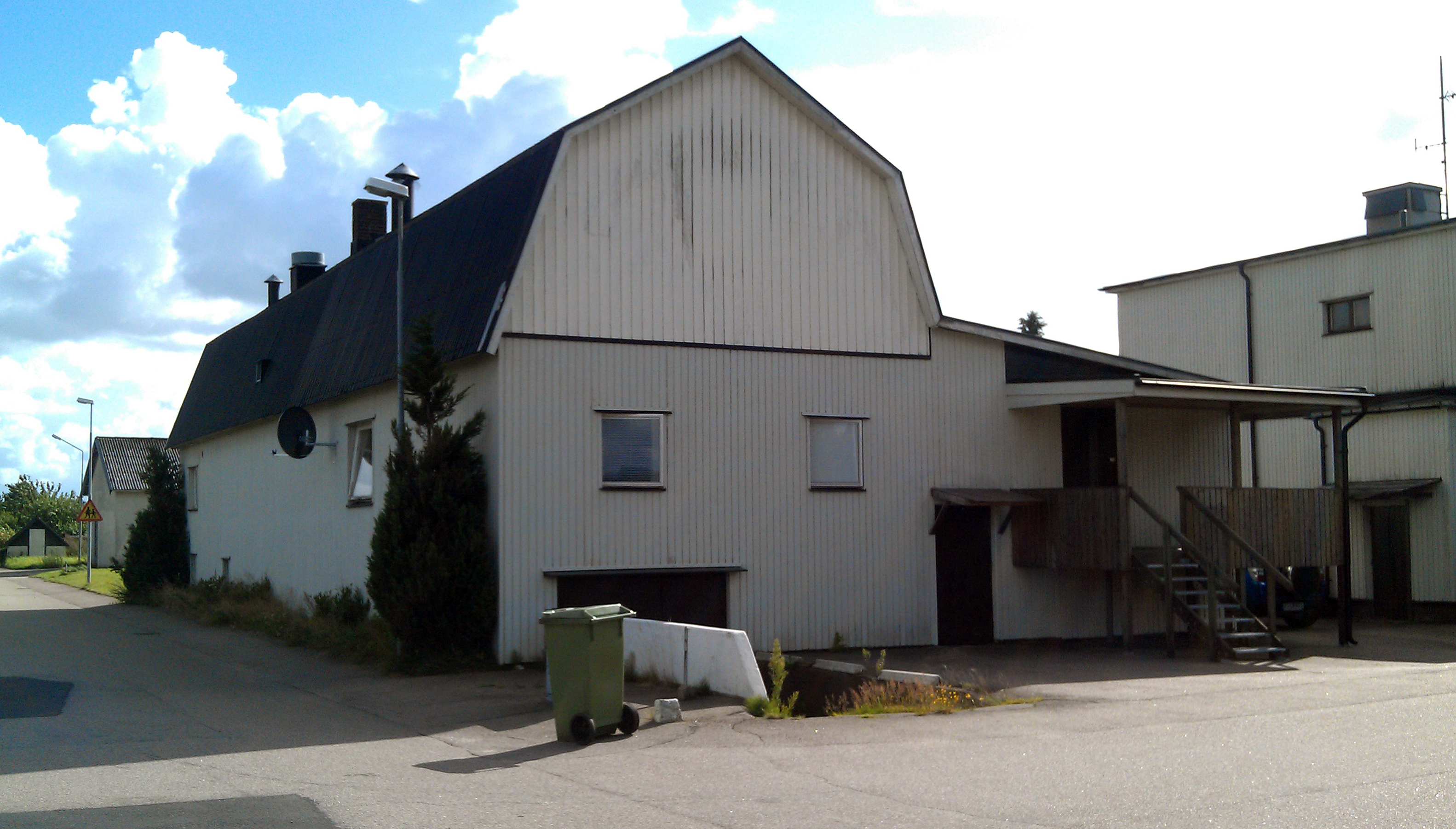 Firma Skodon (or Klostertoffeln), a former shoe store in Åskloster, Halland, Sweden.